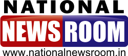 national news room